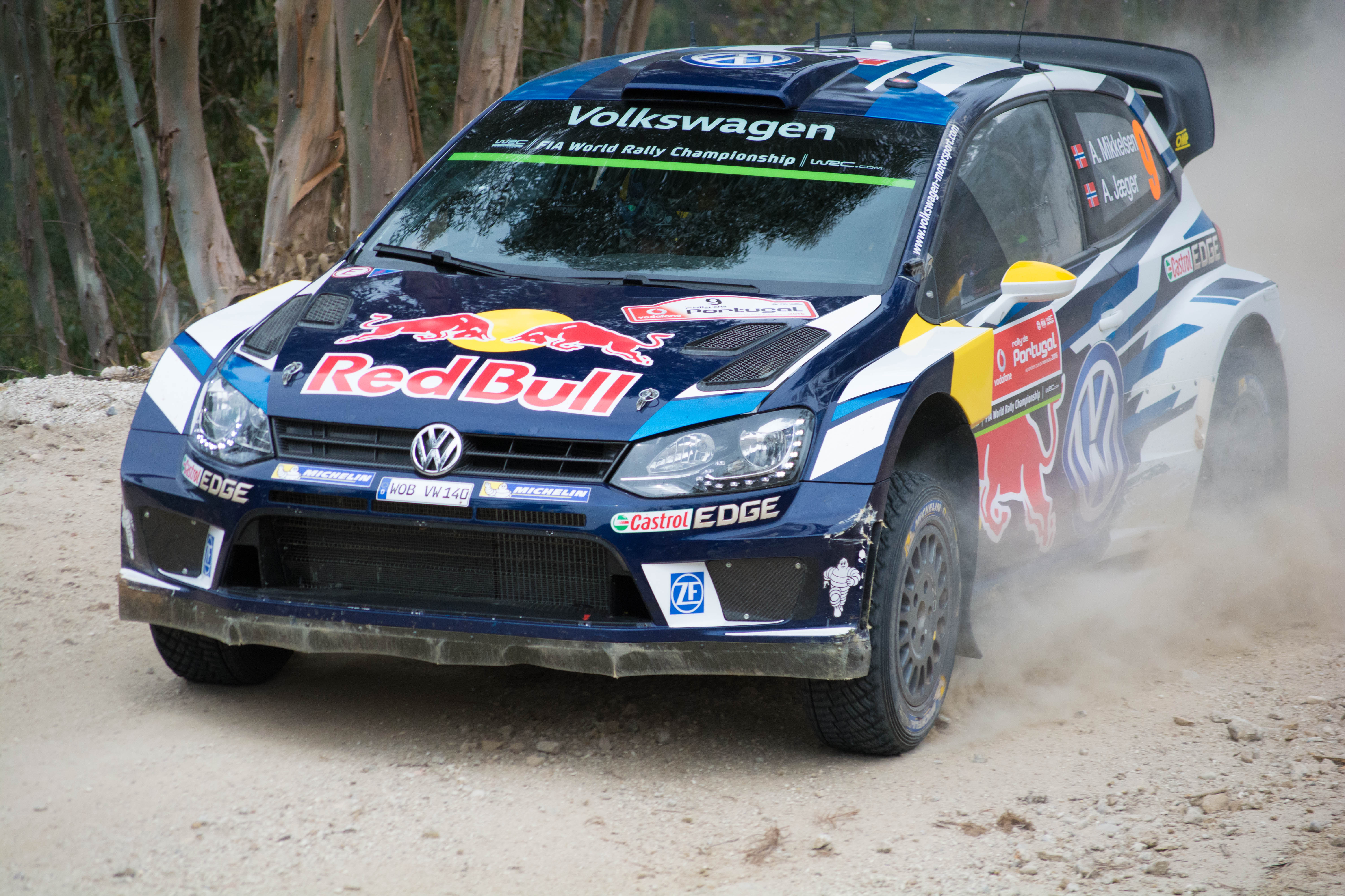 Rally of Portugal 2016. Section of "Amarante", on the first pass